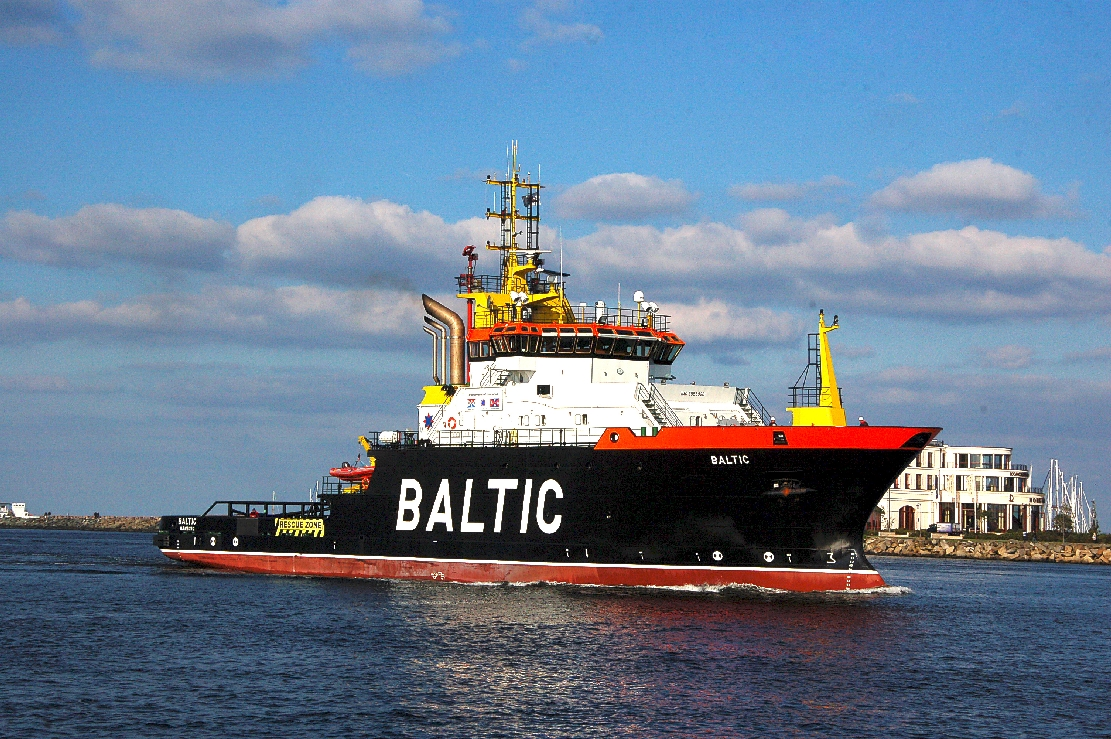 Pictures from Baltic (Ship)